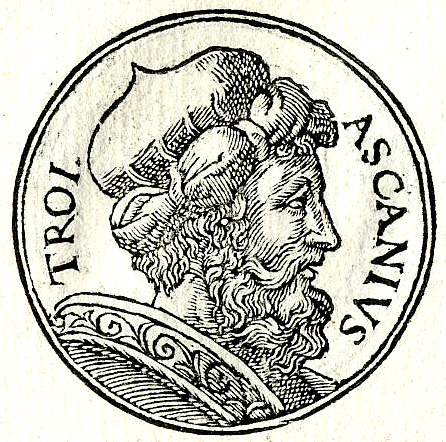 Ascanius was the son of Aeneas and Creusa.